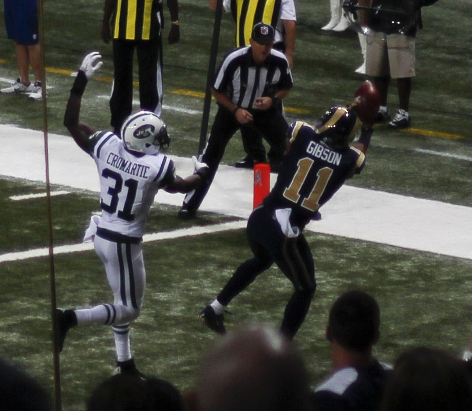 Rams wide out grabs a TD